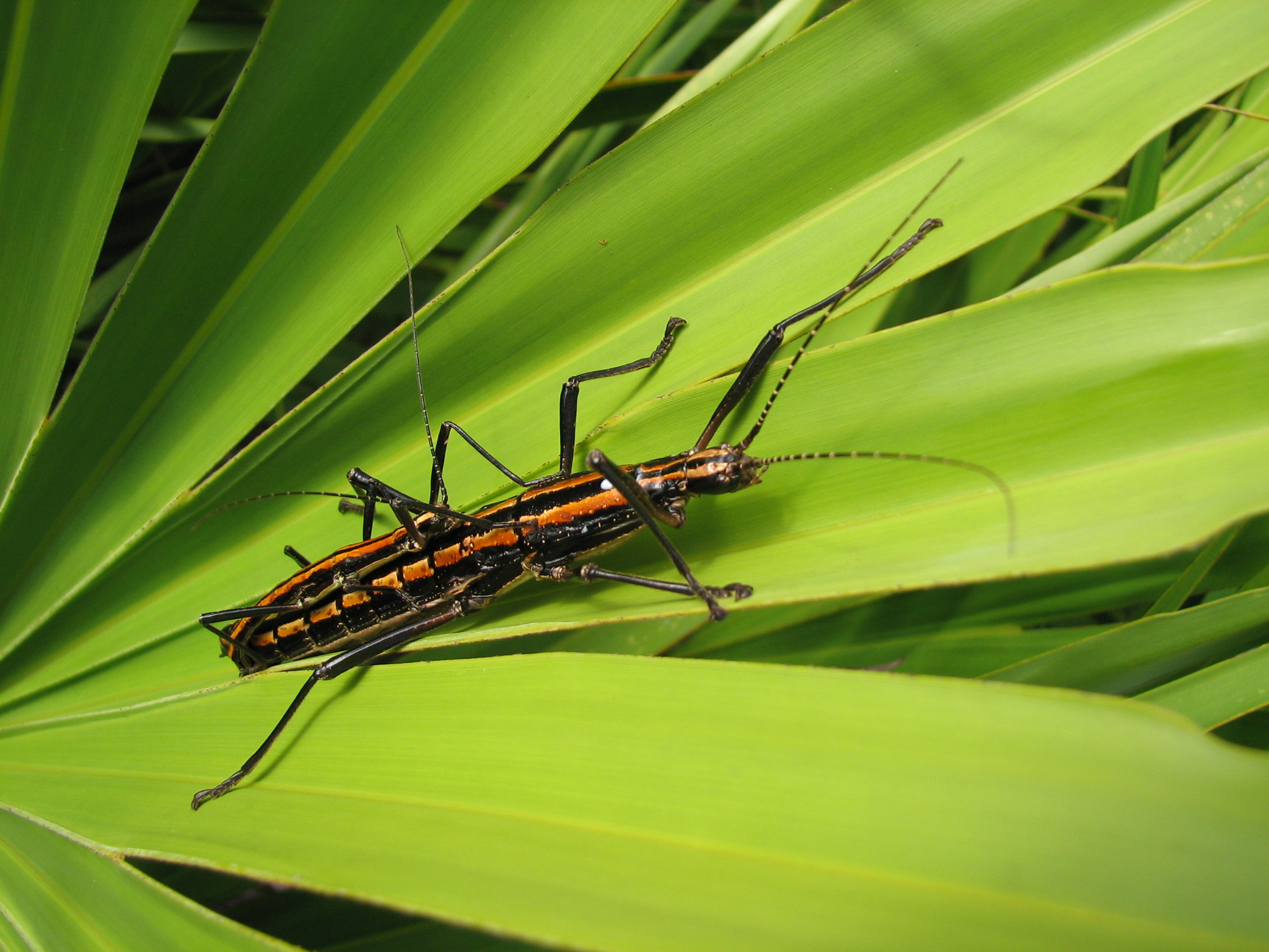 Orange color form of Anisomorpha buprestoides. Photo taken at Archbold Biological Research Station, Florida, USA on November 1, 2006 by Dr. Aaron T. Dossey.